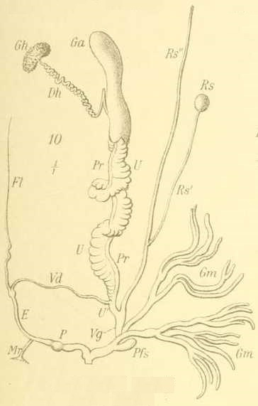 Cepaea vindobonensis (Pfeiffer, 1828), Helicidae, Gastropoda, Mollusca, genital apparatus, from Hesse (1920: pl. 643, fig.10